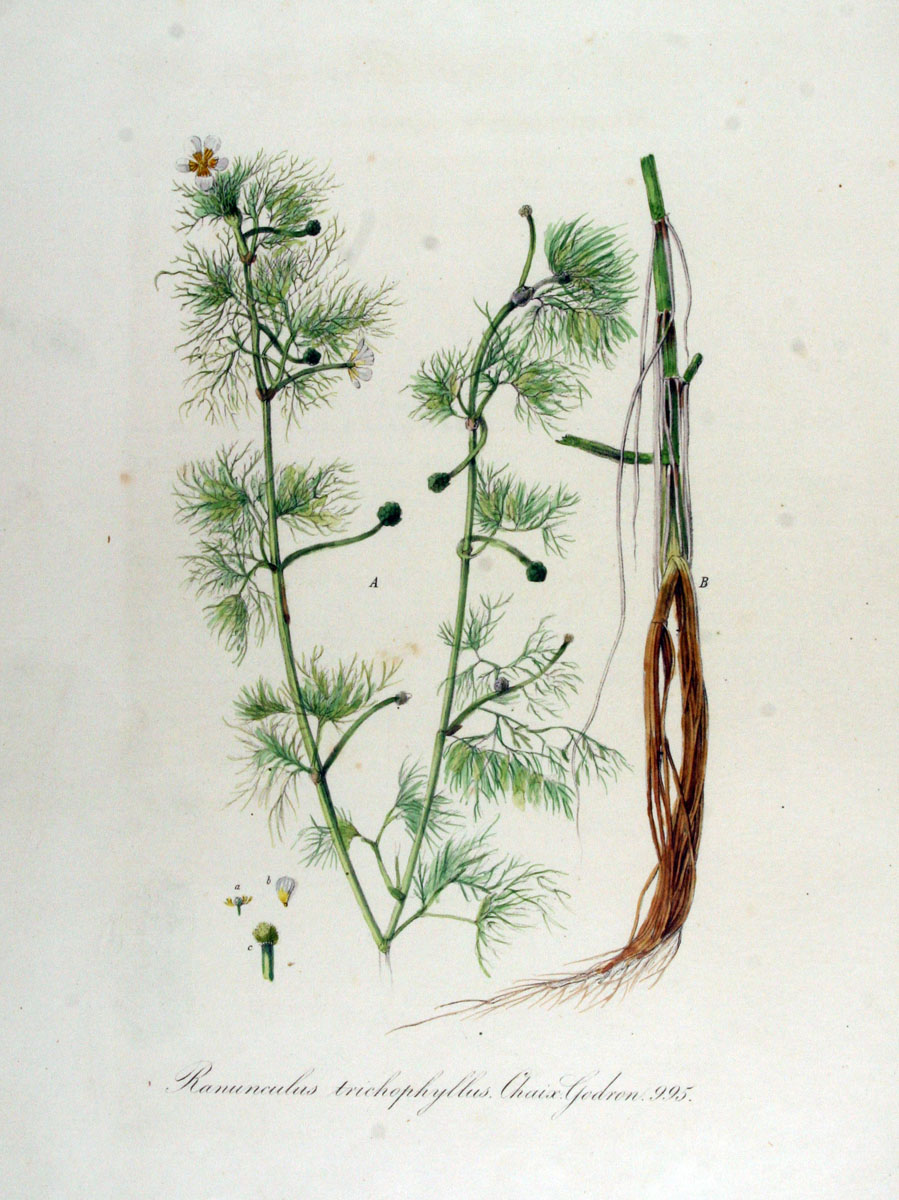 Ranunculus trichophyllus Chaix.